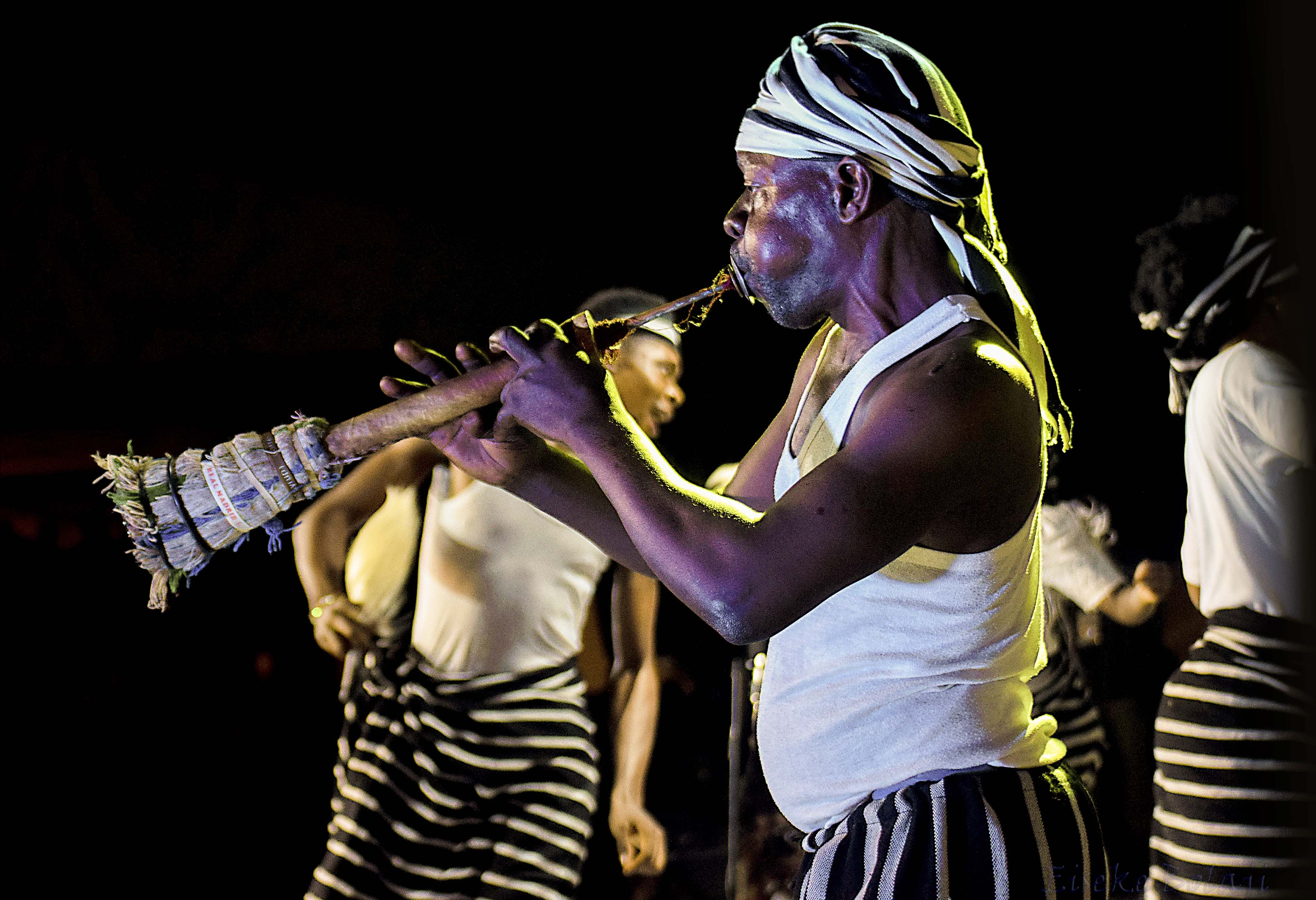 The algaita (also spelled alghaita, algayta or algheita) is a double reed wind instrument from West Africa, especially among the Hausa and Kanuri peoples. This is an image with the theme "Play" from: Nigeria